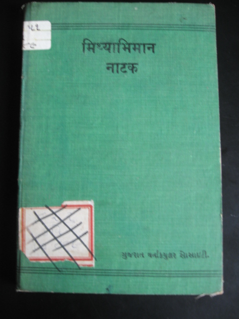 Mithyabhimana - Book Cover